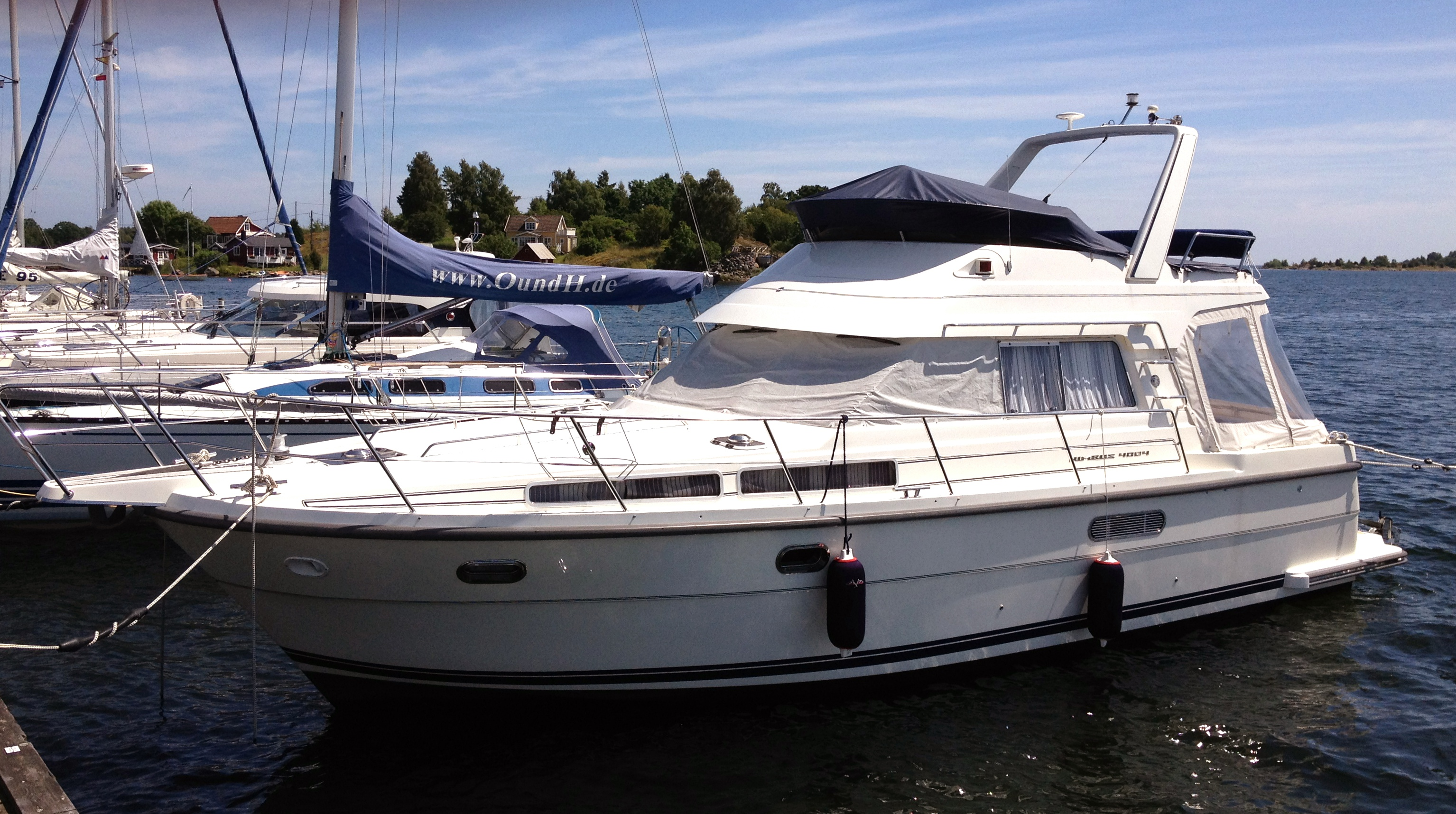 Nimbus 4004